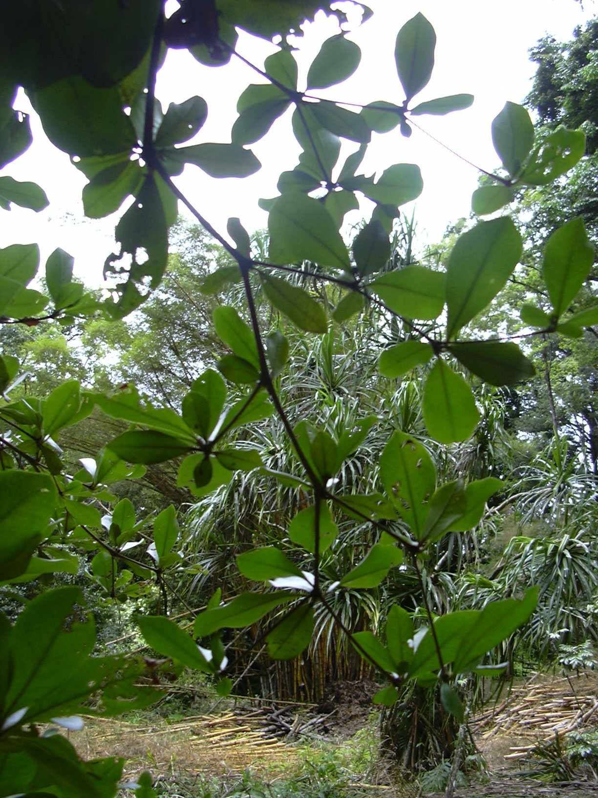 Bucida buceras (habit). Location: Maui, Keanae Arboretum